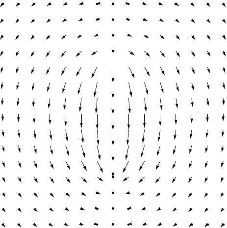 Plot of a vector field. The field is supposed to be from a dipole, however it shows a rather different behaviour towards the bottom and top of the image. Looks a bit like the field of two oppositely charged wires or plates or so...